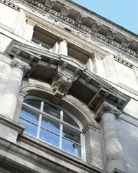 The front facade of the historic RUSI headquarters, built in 1894.